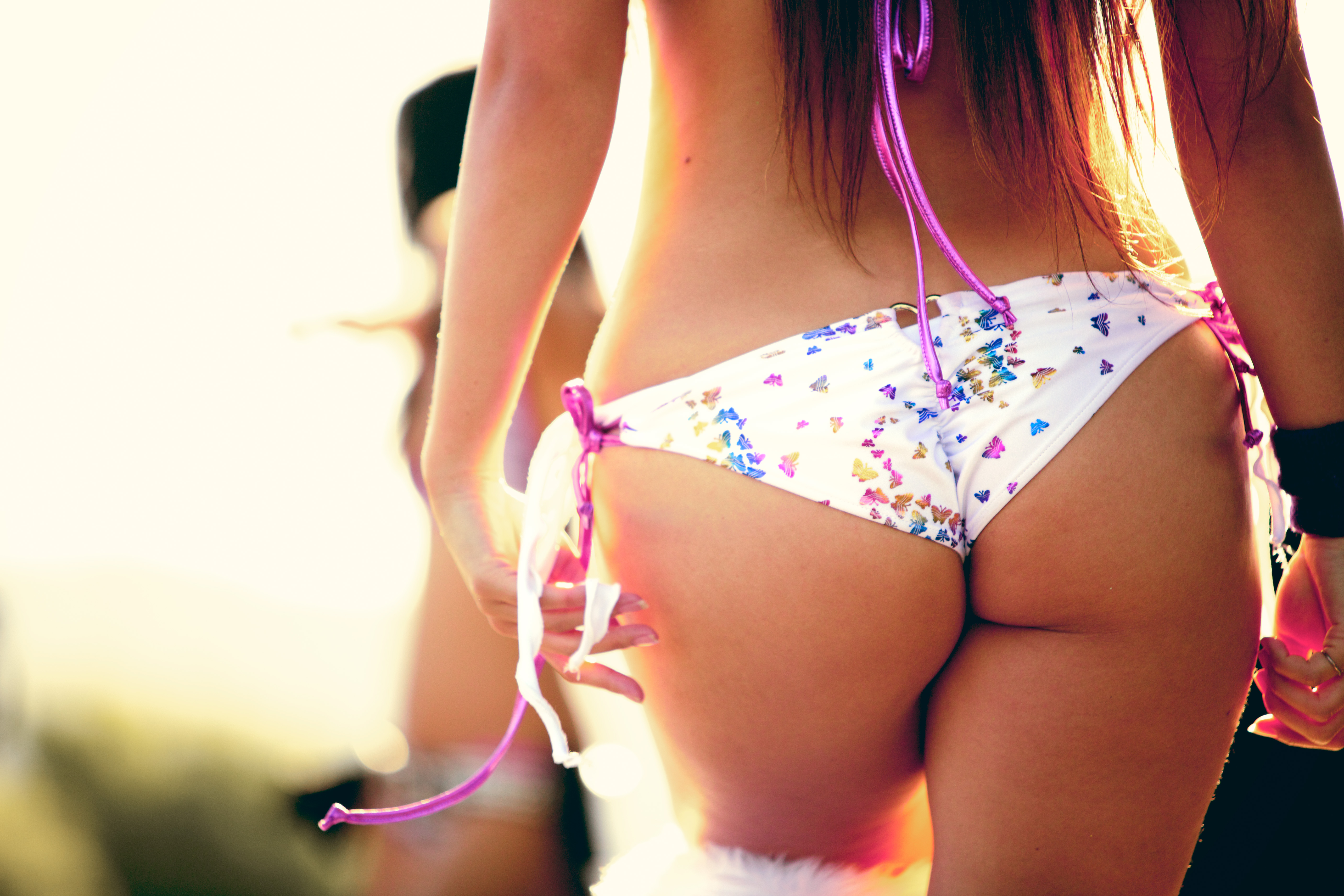 Photography by Mark J. Sebastian